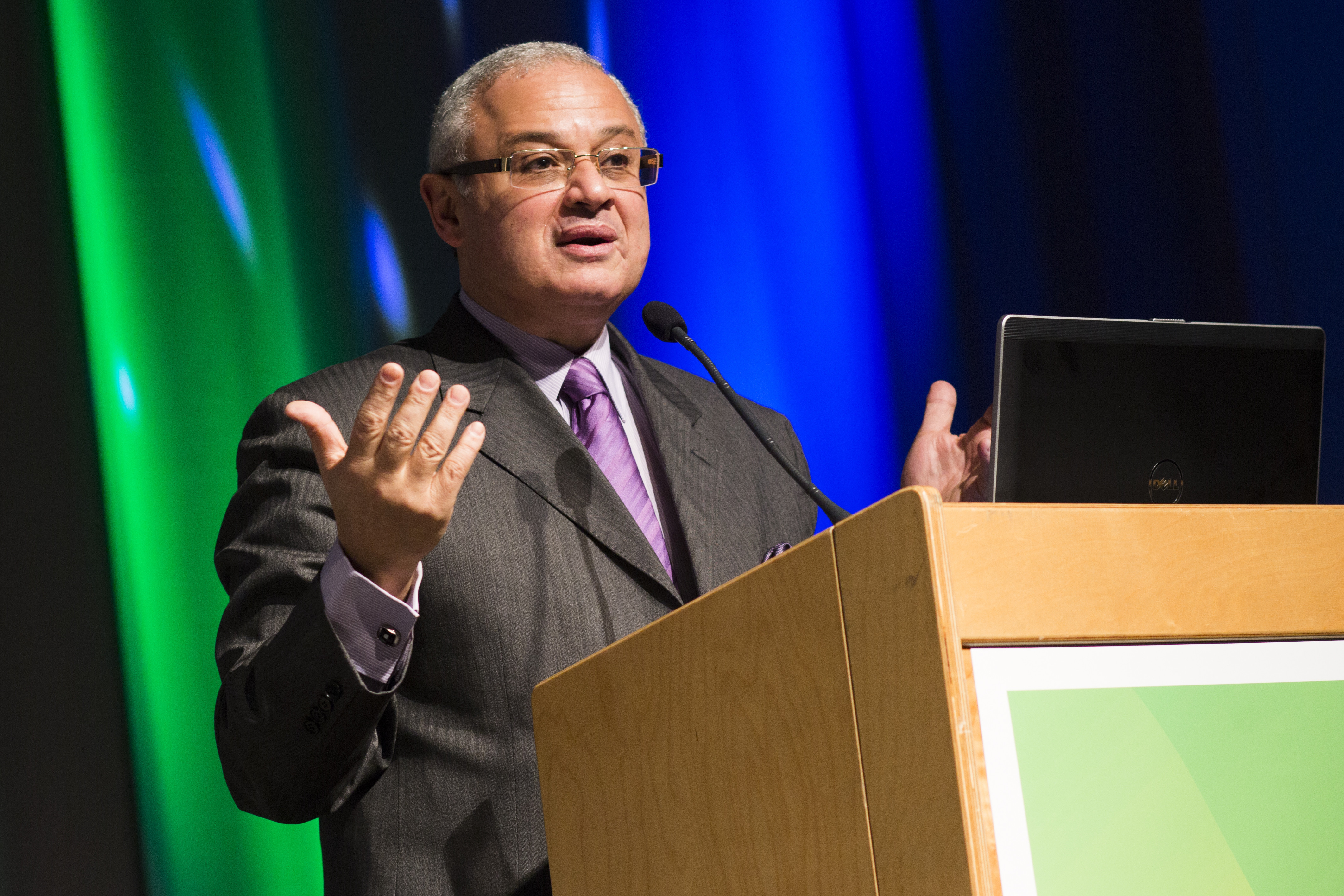 Hisham Zaazou, the Egyptian Minister of Tourism, holds a speech at the Swedish International Travel and Tourism Trade Fair in Gothenburg 2013.